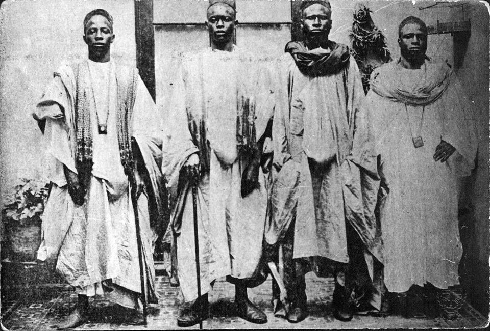 Immigrants from Senegal just arrived in Buenos Aires. They had been brought to work at a sugar mill in Tucumán Province.